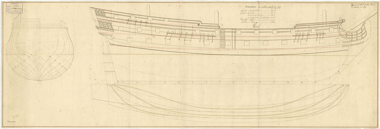 Guernsey (1740) Scale: 1:48. Plan showing the body plan, sheer lines, and longitudinal half-breadth proposed (and approved) for Guernsey (1740), a 50-gun Fourth Rate, two-decker. Signed by John Ward [Master Shipwright, Chatham Dockyard, 1732-1752]. NMM, Progress Book, volume 2, folio 223, states that 'Guernsey' was begun in March 1737 (Old Style). Order date not listed. GUERNSEY 1740